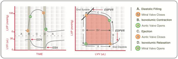 Pressure-Volume Loop with stages of cardiac cycle.